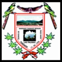 escudo del distrito de Damaso Beraun